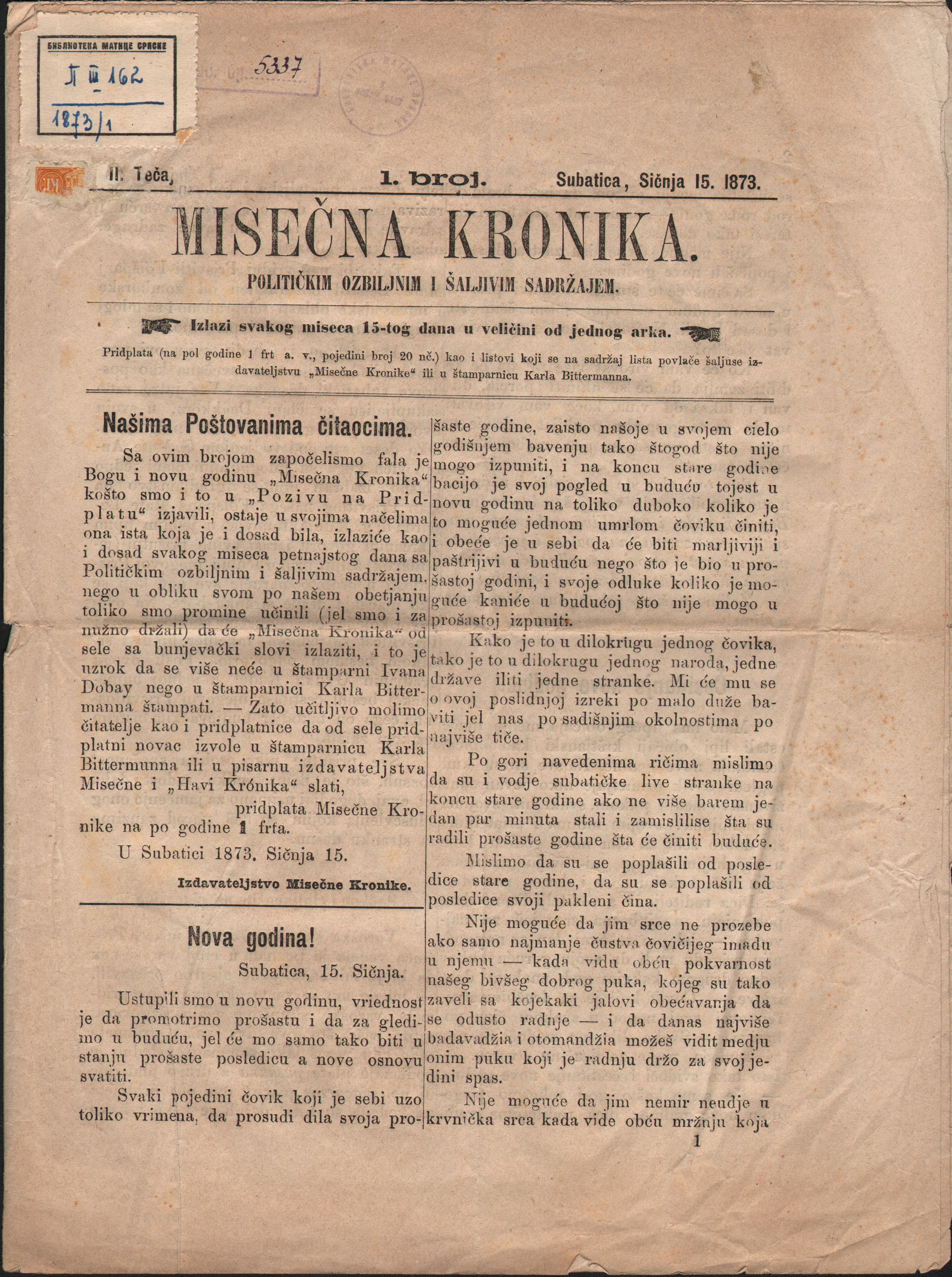 Misečna kronika (Monthly Chronicle), magazin from 1873 in Serbian language.